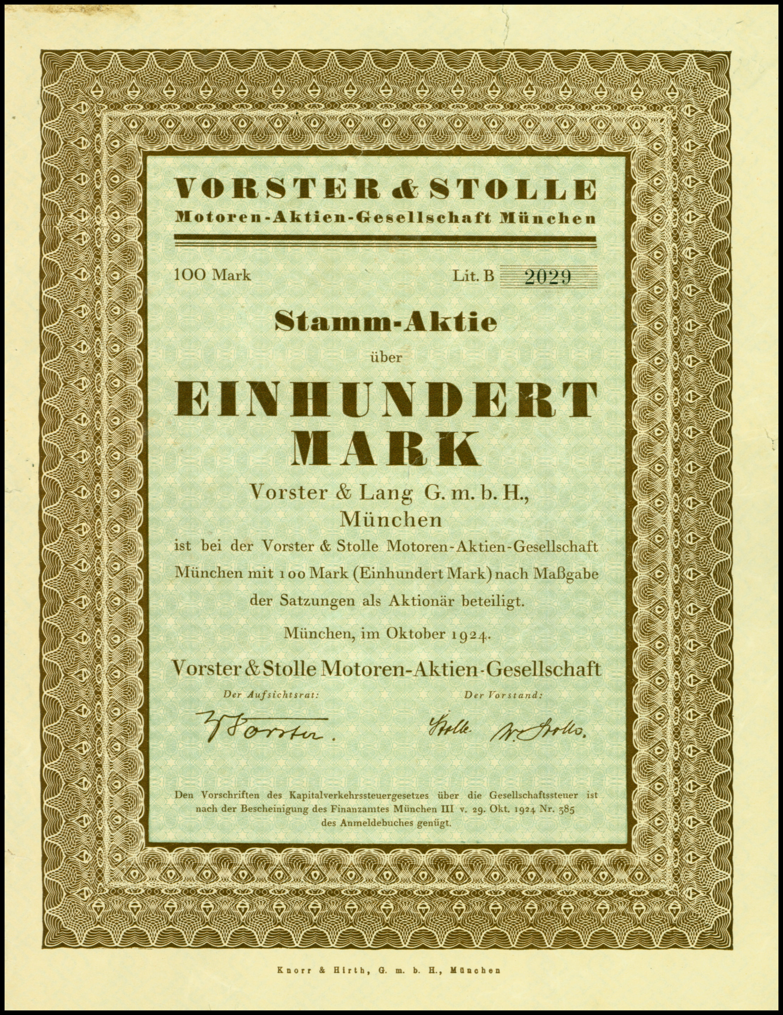 Share of the Vorster & Stolle Motoren-AG, issued October 1924